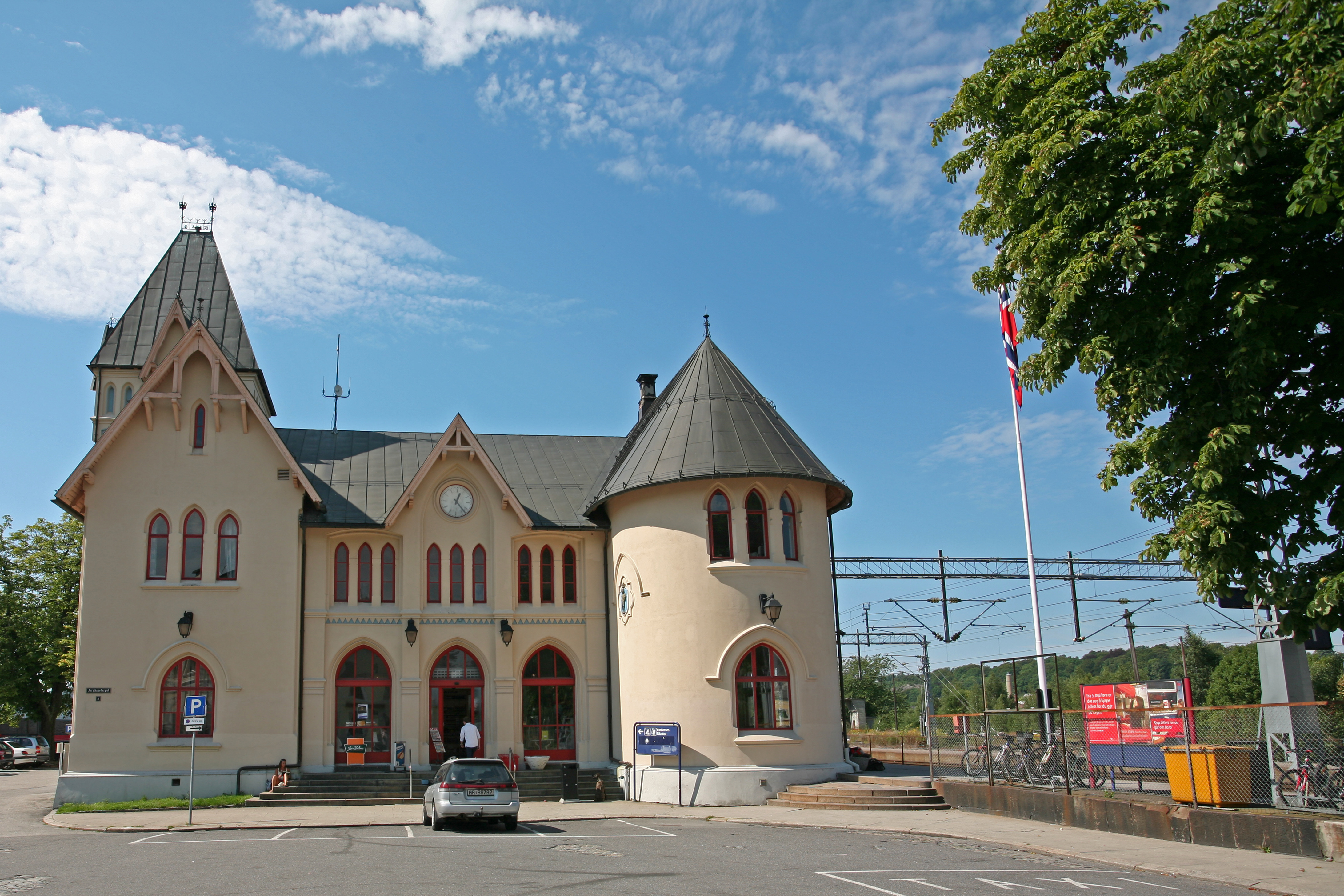 Picture of Halden Railway Station (Norway)